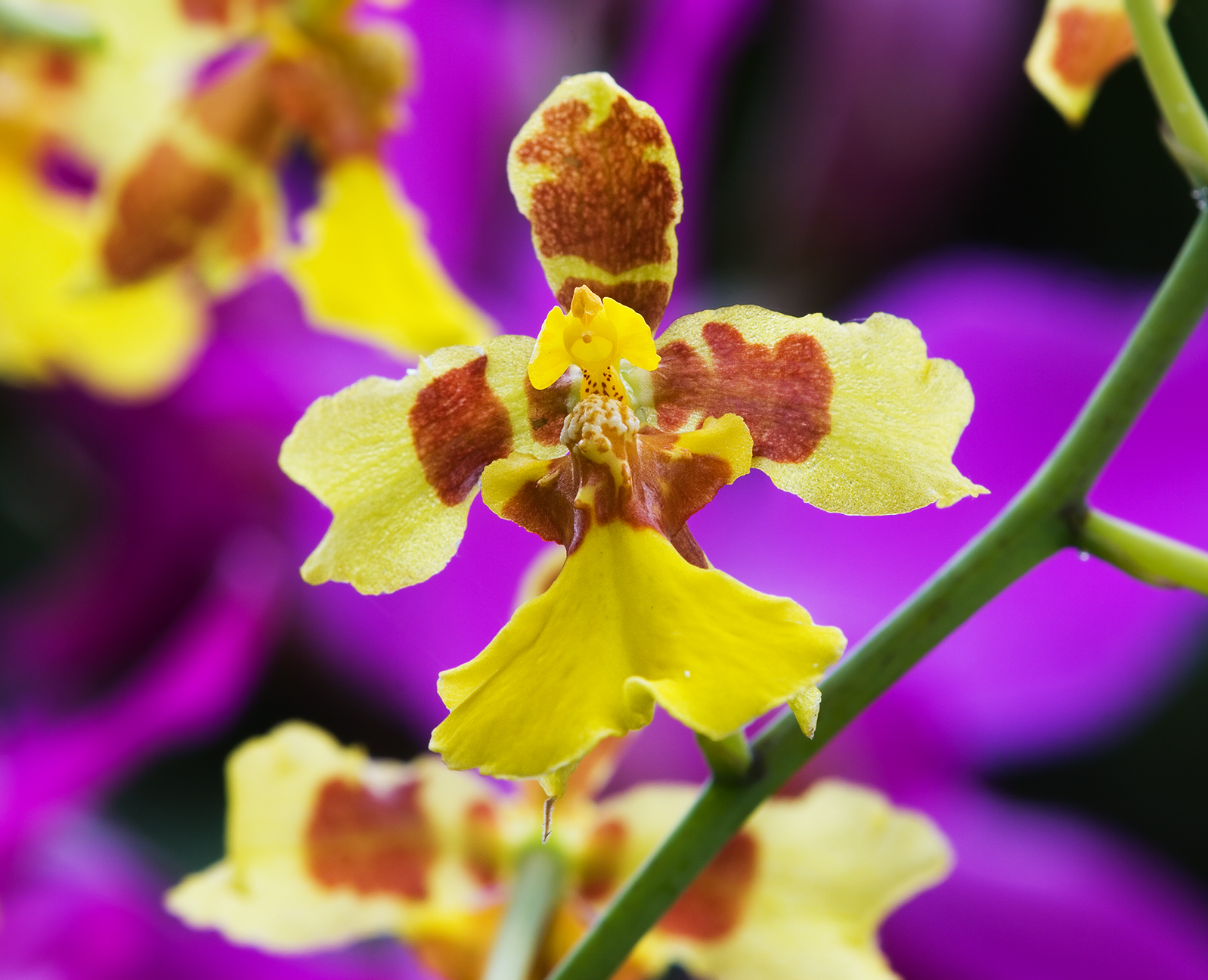 Oncidium excavatum, Royal Tasmanian Botanical Gardens, Tasmania, Australia Camera data Camera Canon EOS 400D Lens Tamron EF 180mm f3.5 1:1 Macro Focal length 180 mm Aperture f/11 Exposure time 1/2 s Sensivity ISO 100